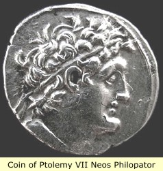 Coin of Ptolemy VII